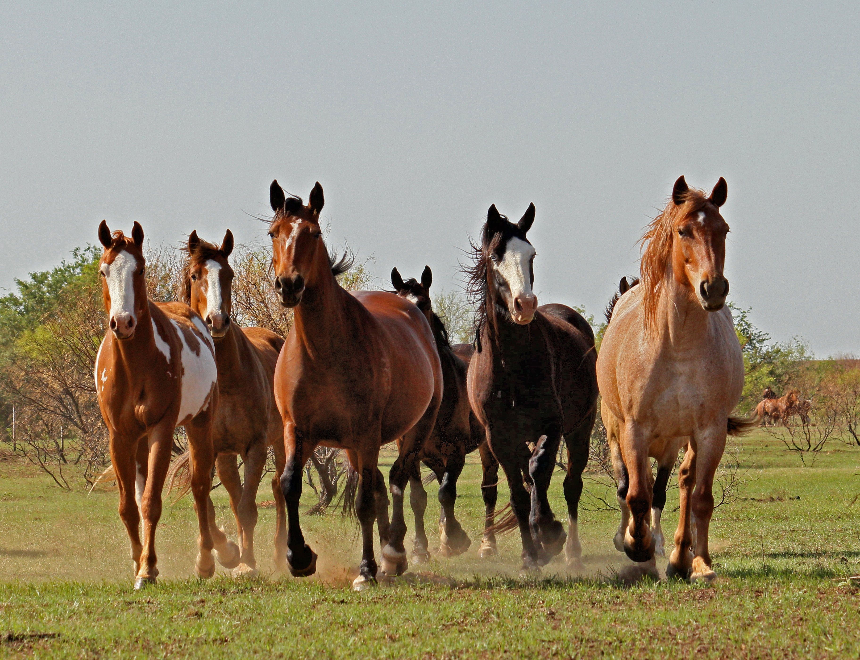 A small group of horses headed in to investigate arrival of pickup truck.